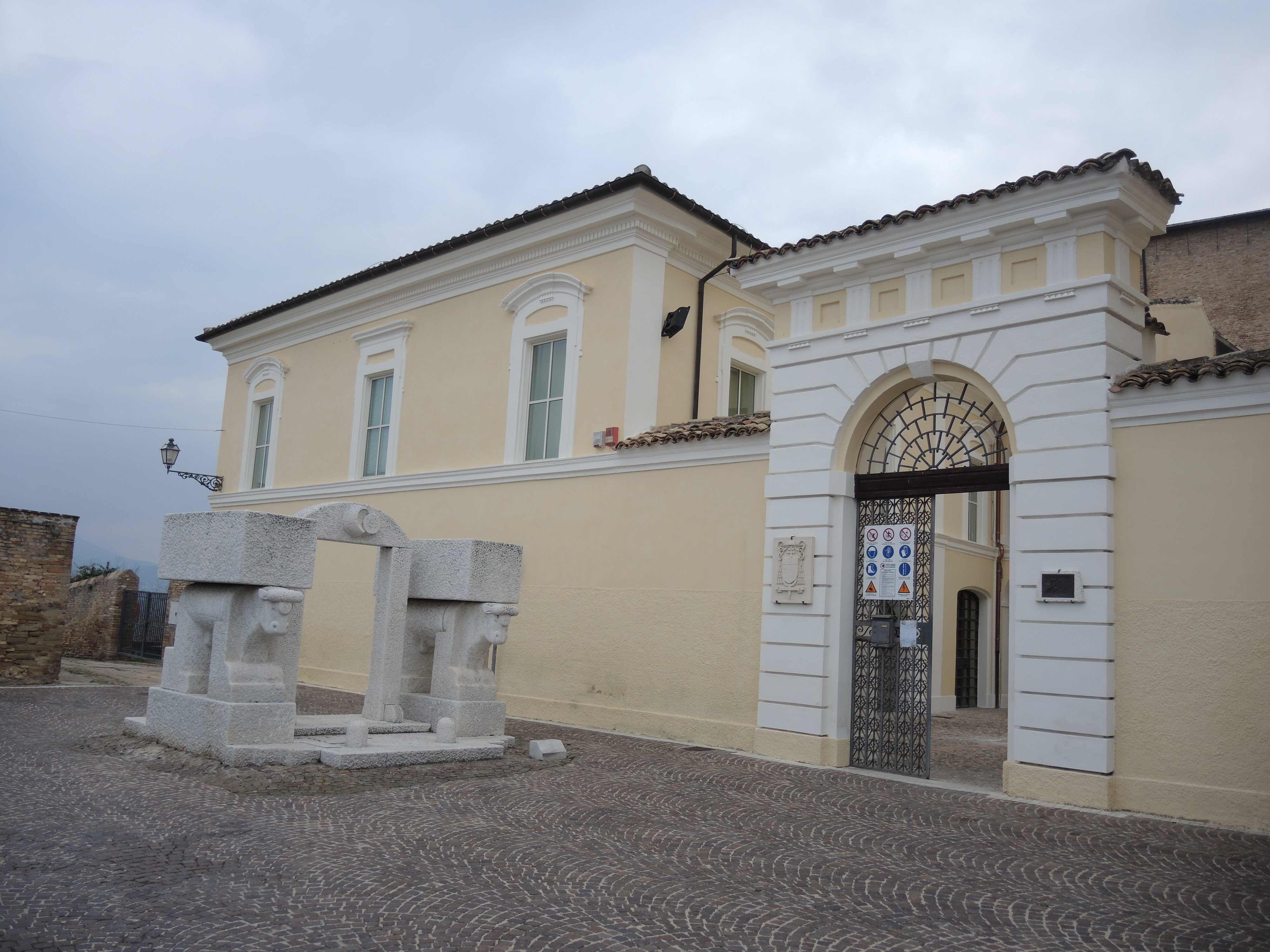 Penne: Museo Archeologico Civico e Diocesano Giovanni Battista Leopardi